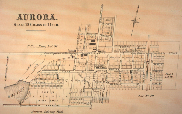 A map of Aurora from 1878, showing the main intersection of Yonge Street and Wellington Street. The heritage district is northeast of the intersection.